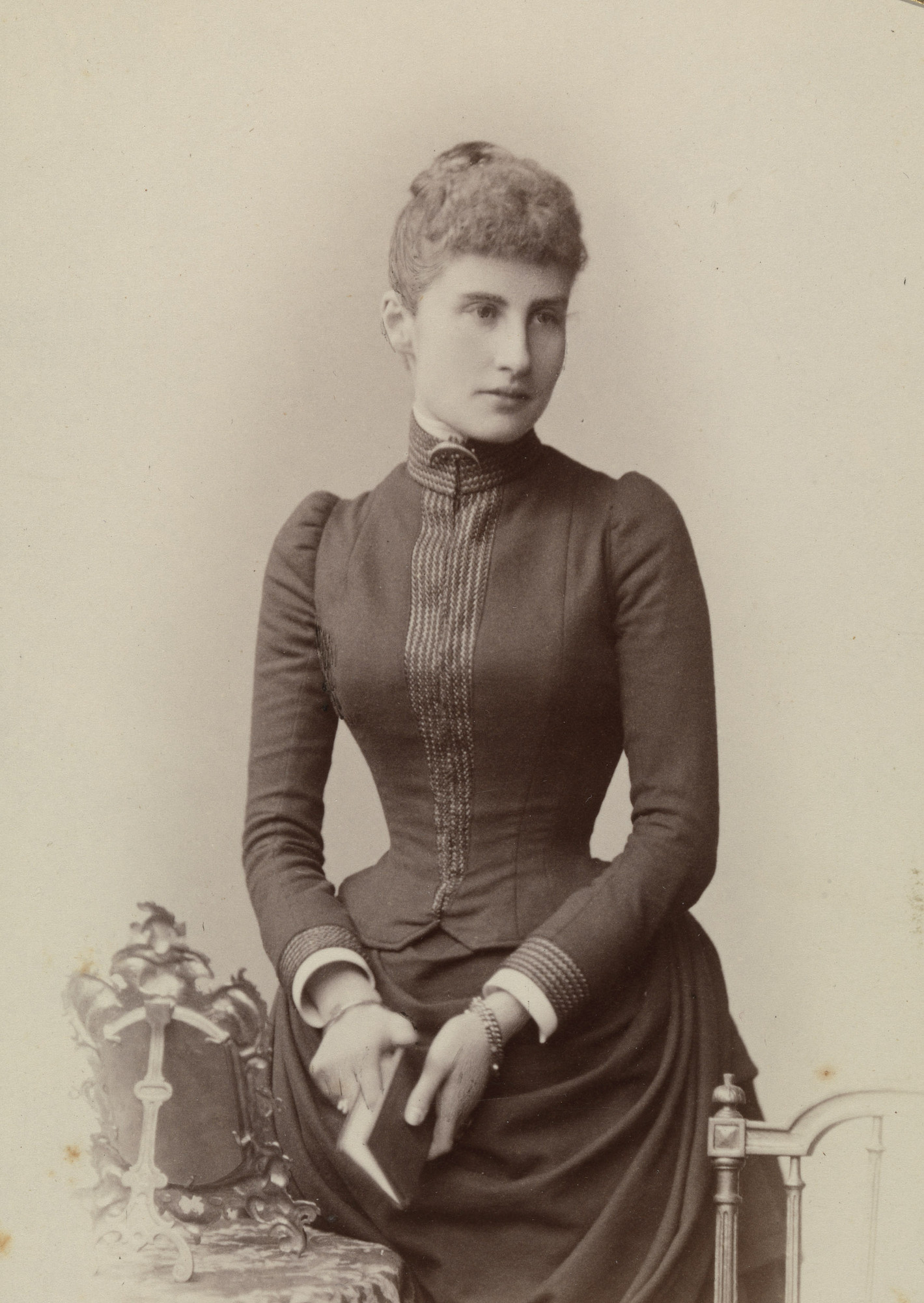 Princess Louise, wife of Friedrich Prince of Hohenzollern, 1st daughter of Maximilian Hereditary Prince of Thurn and Taxis (1859-1948)